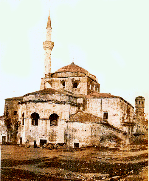 The Church of Holy Wisdom (Haya Sofya) in Thessaloniki as a mosque before the 1890 fire